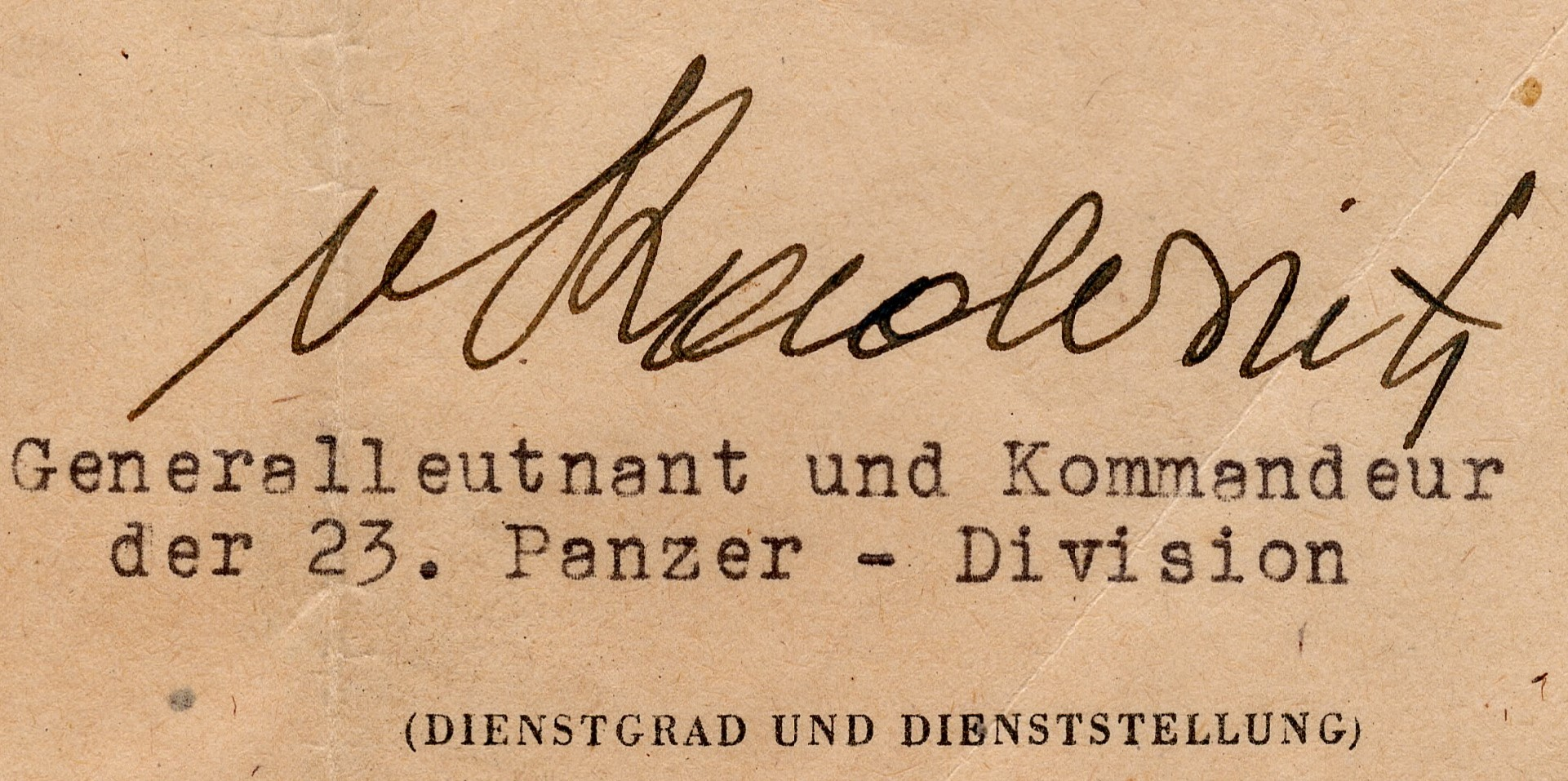 Original signature of the lieutenant general and commander of the 23rd Panzer - Division